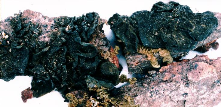 Collema furfuraceum (Arnold) Du Rietz, 1929 (photograph of a herbarium specimen showing broad lobes with conspicuous ridges and pustules) Growing at the base of a deciduous tree trunk along the bank of Terrapin Run, just S of Scenic Route 40, Allegany County, Maryland, USA; collected and identified by A. Norden and B. Ball (No. 401, 14 Aug 1973); specimen is now in the Lichen Herbarium of the New York Botanical Garden.